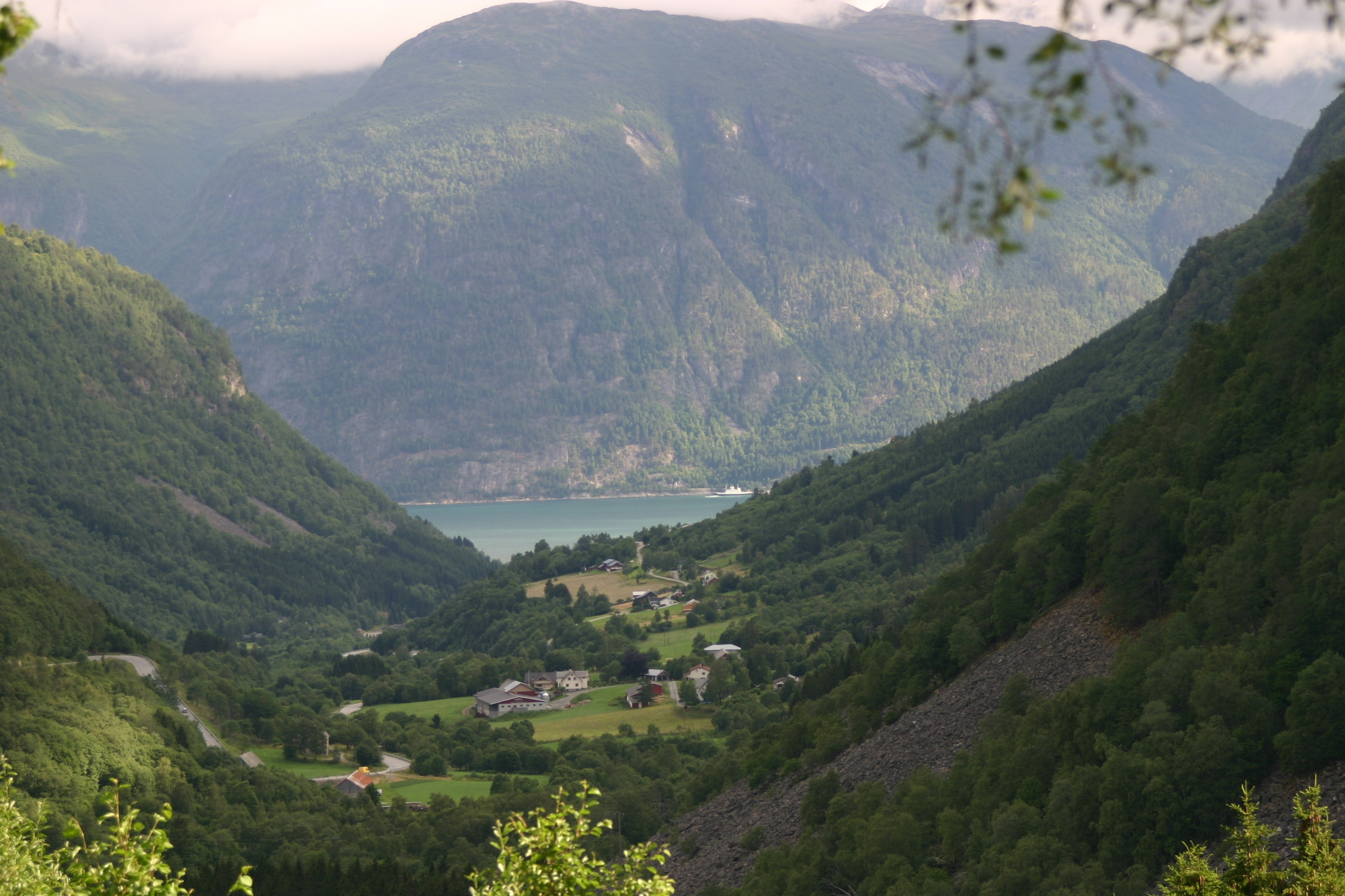 View to Norddalsfjord from Eidsdal valley (Linge ferry across the Norddalsfjord)